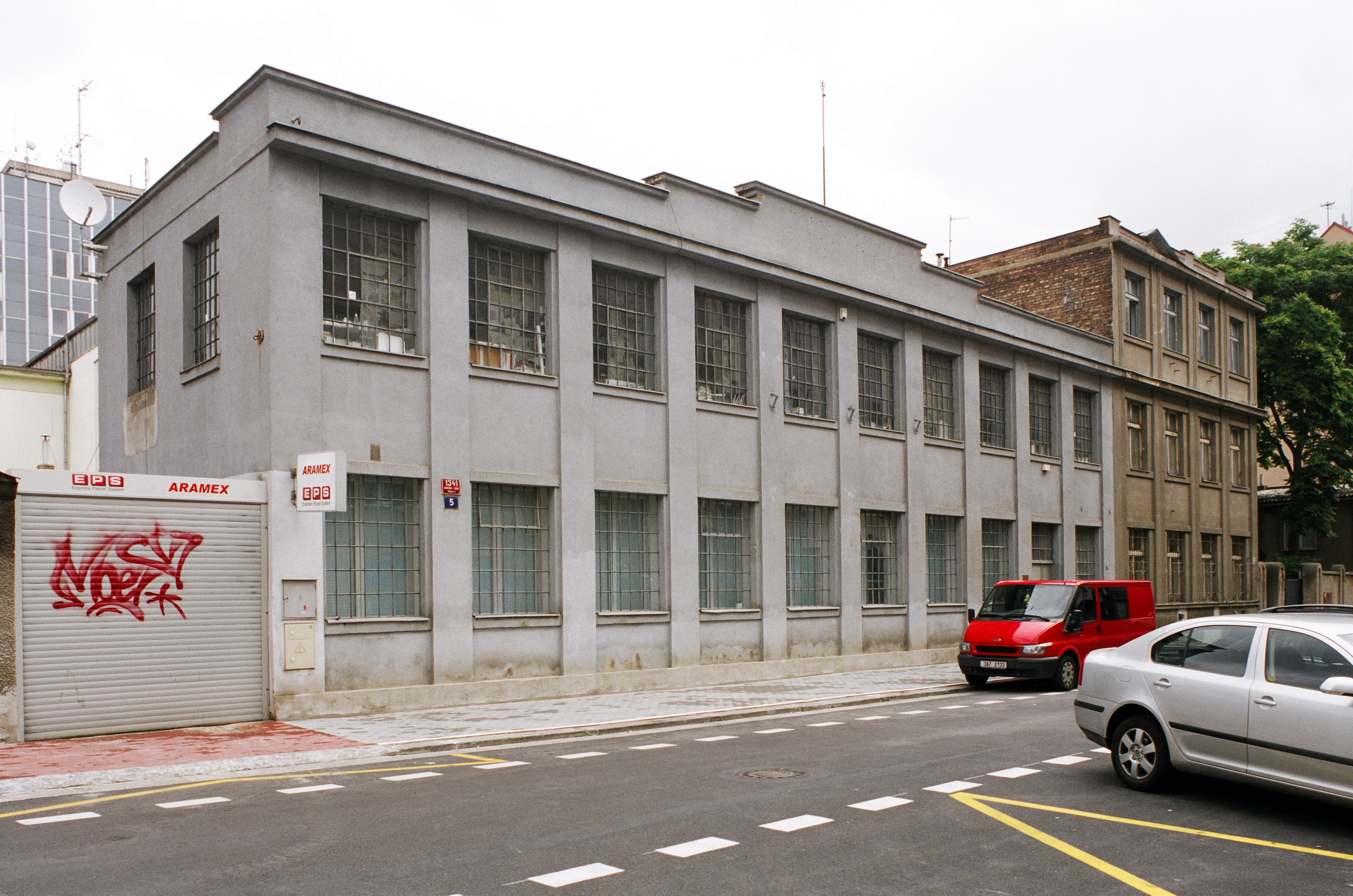 Karel Mareda Structural Metal Working, now Architectoral studio, Prague 7, Přístavní 5